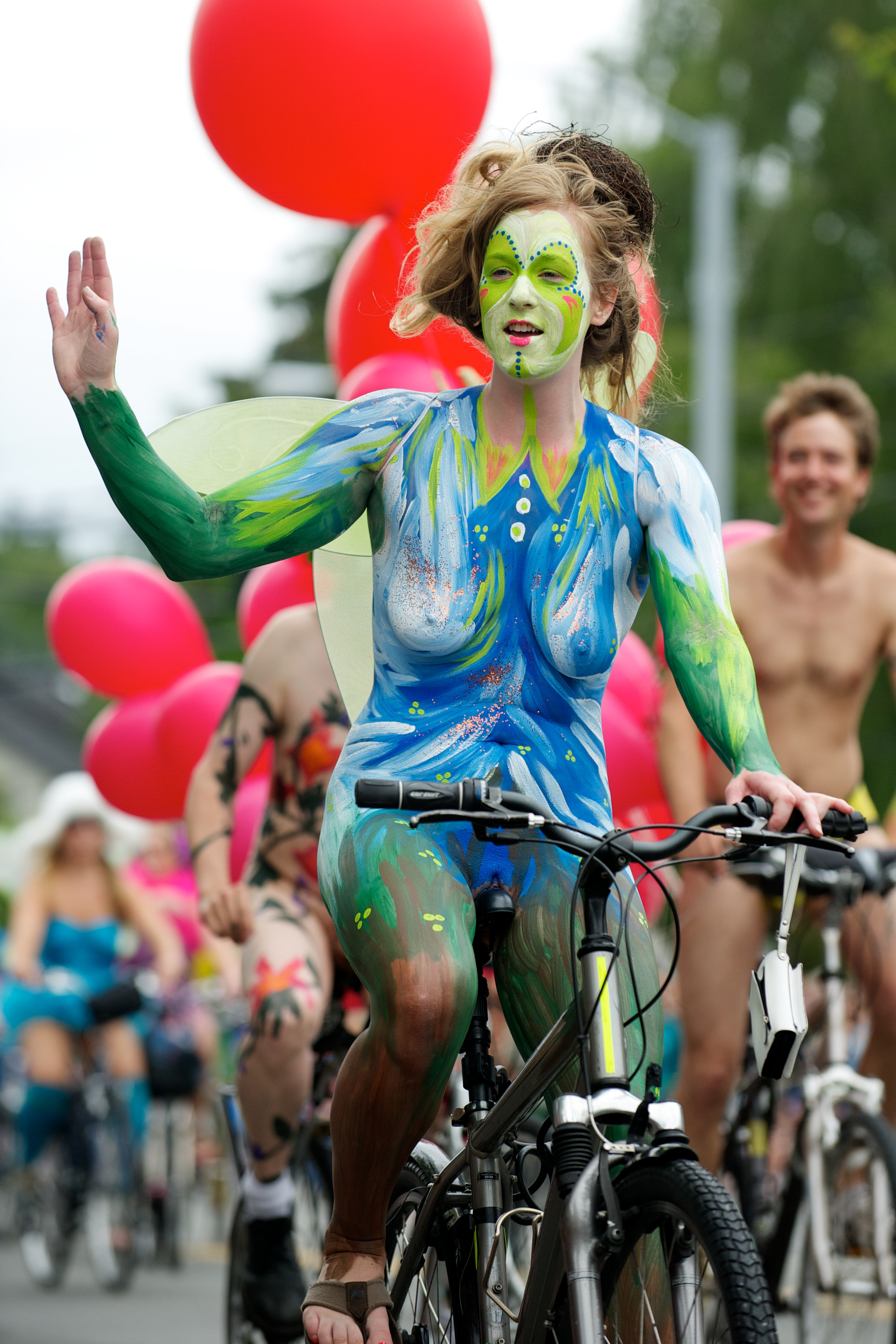 Fremont Solstice Parade